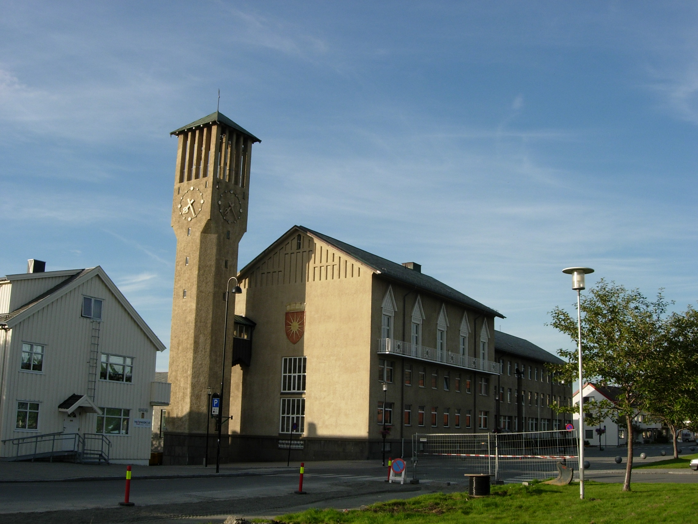 Bodø Town hall.